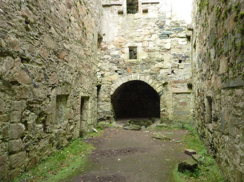 Old Castle Lachlan, Garbhallt, Argyll and Bute, Scotland. Courtyard.